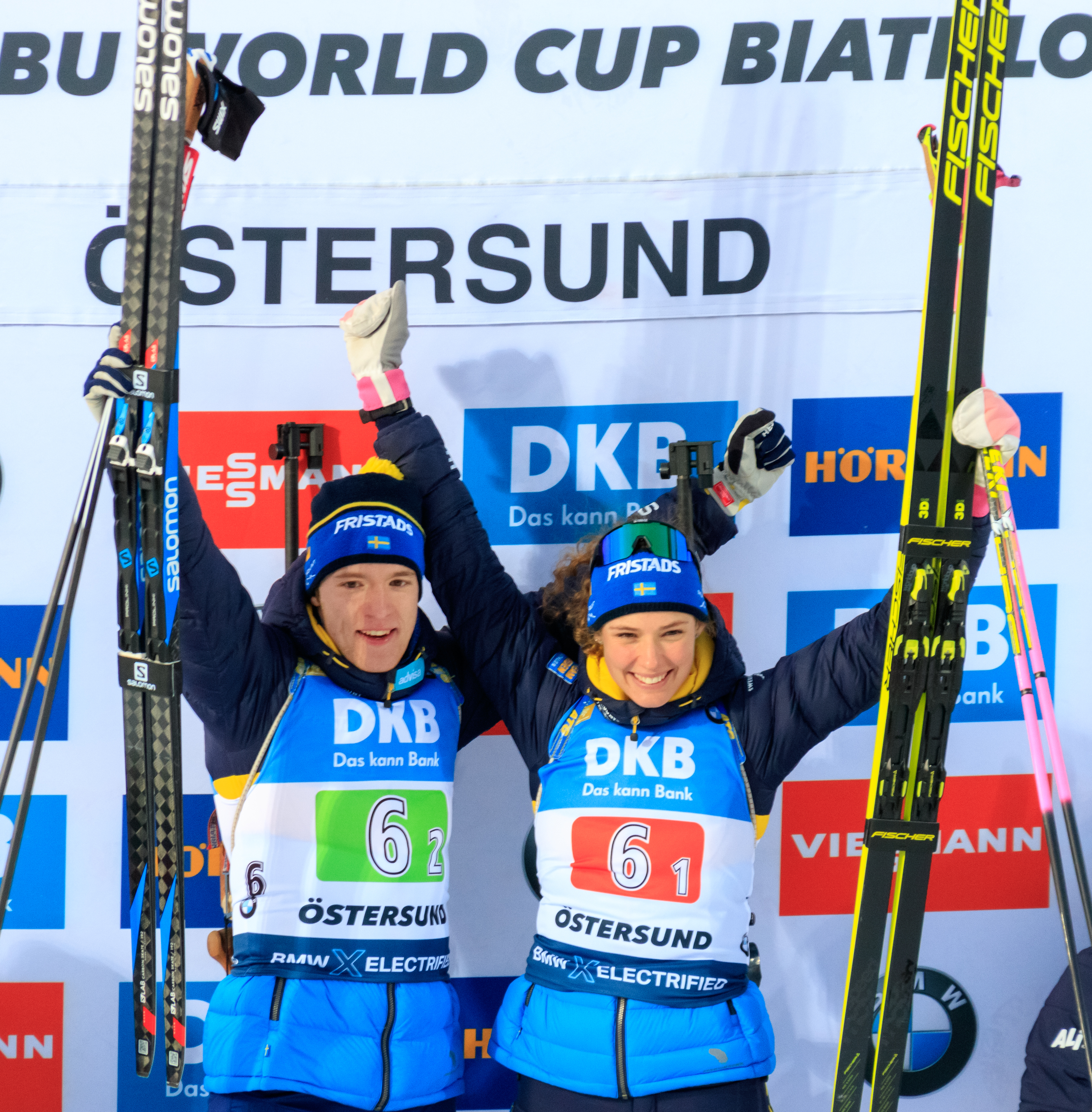 Sebastian Samuelsson and Hanna Öberg after Sthe Single mix relay in Östersund 2019